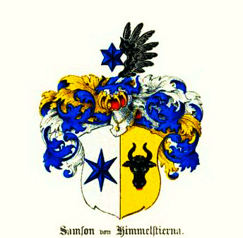 Coat of Arms of Samson_von_Himmelstierna family